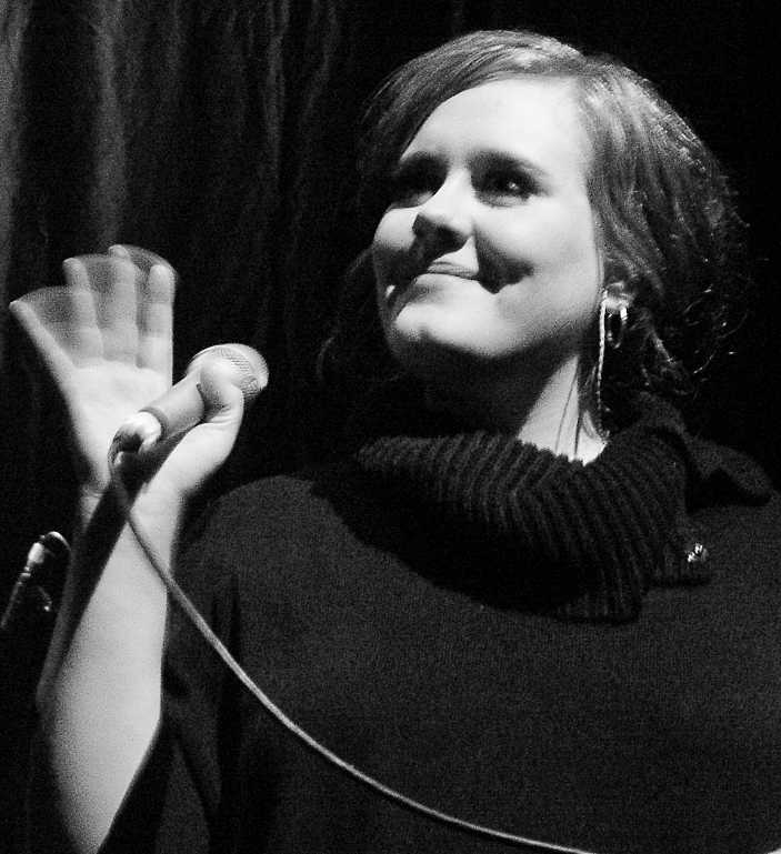 Adele on a concert in January 2009.